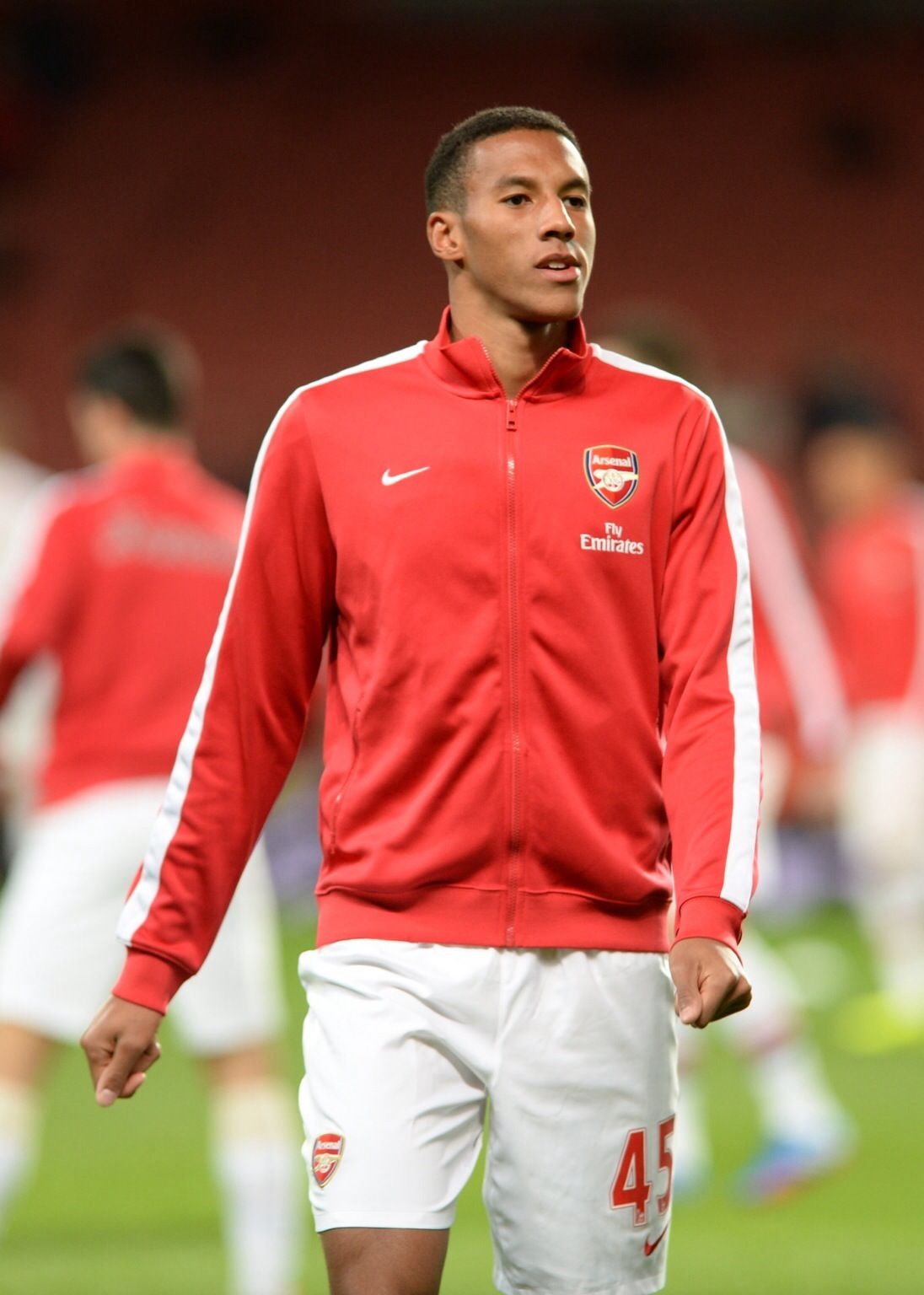 Isaac Hayden of Arsenal warms up before the Liverpool game on the 2nd November 2013